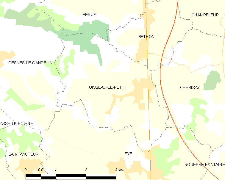 Map of French municipality